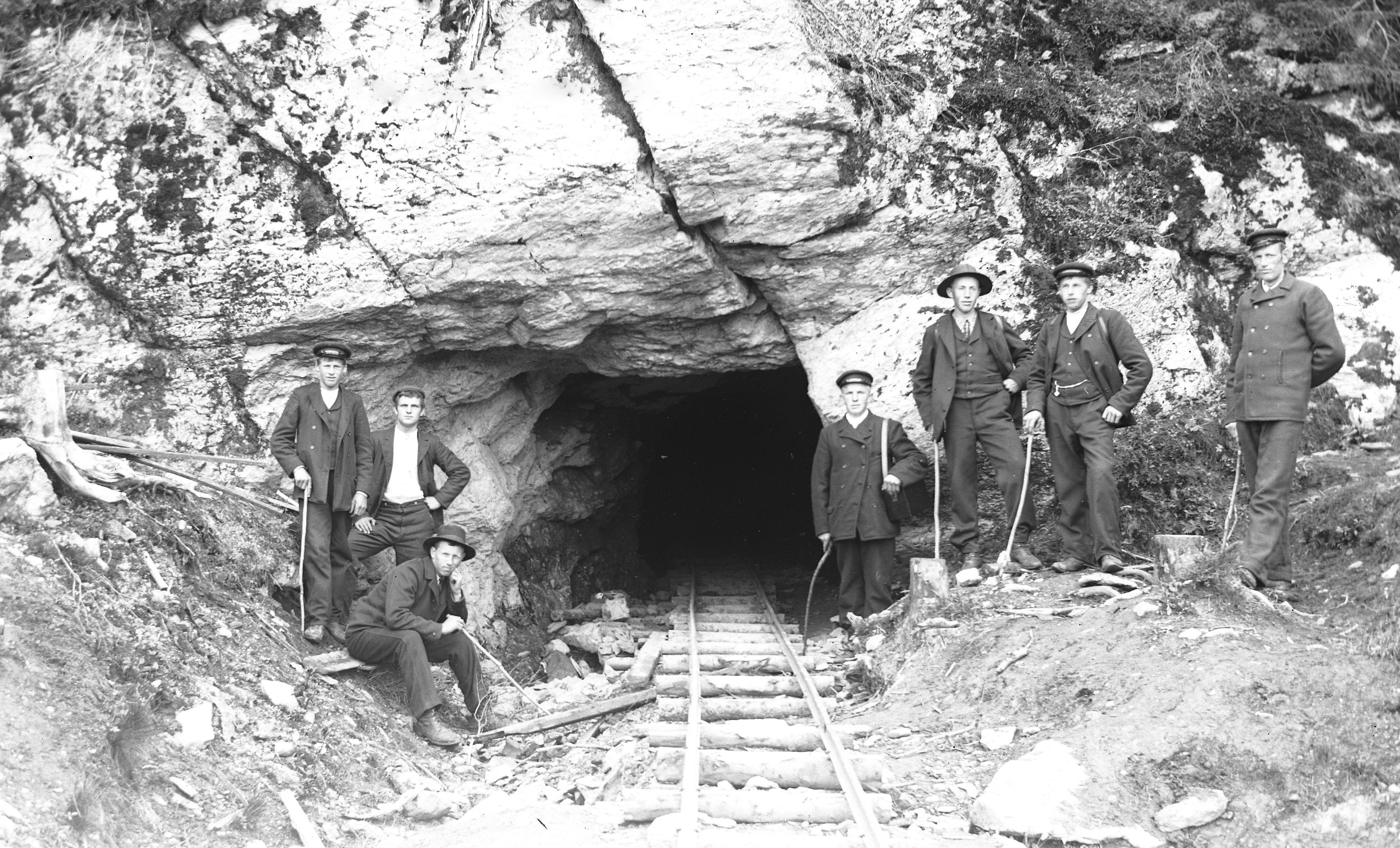 Workers outside the Fines mine